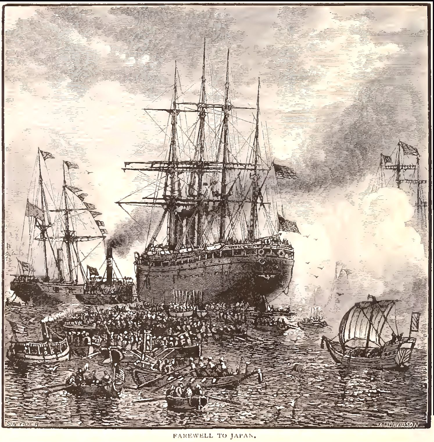 Image of SS City of Tokio, taken from book by John Russell Young, 1879